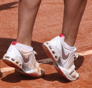 tennis